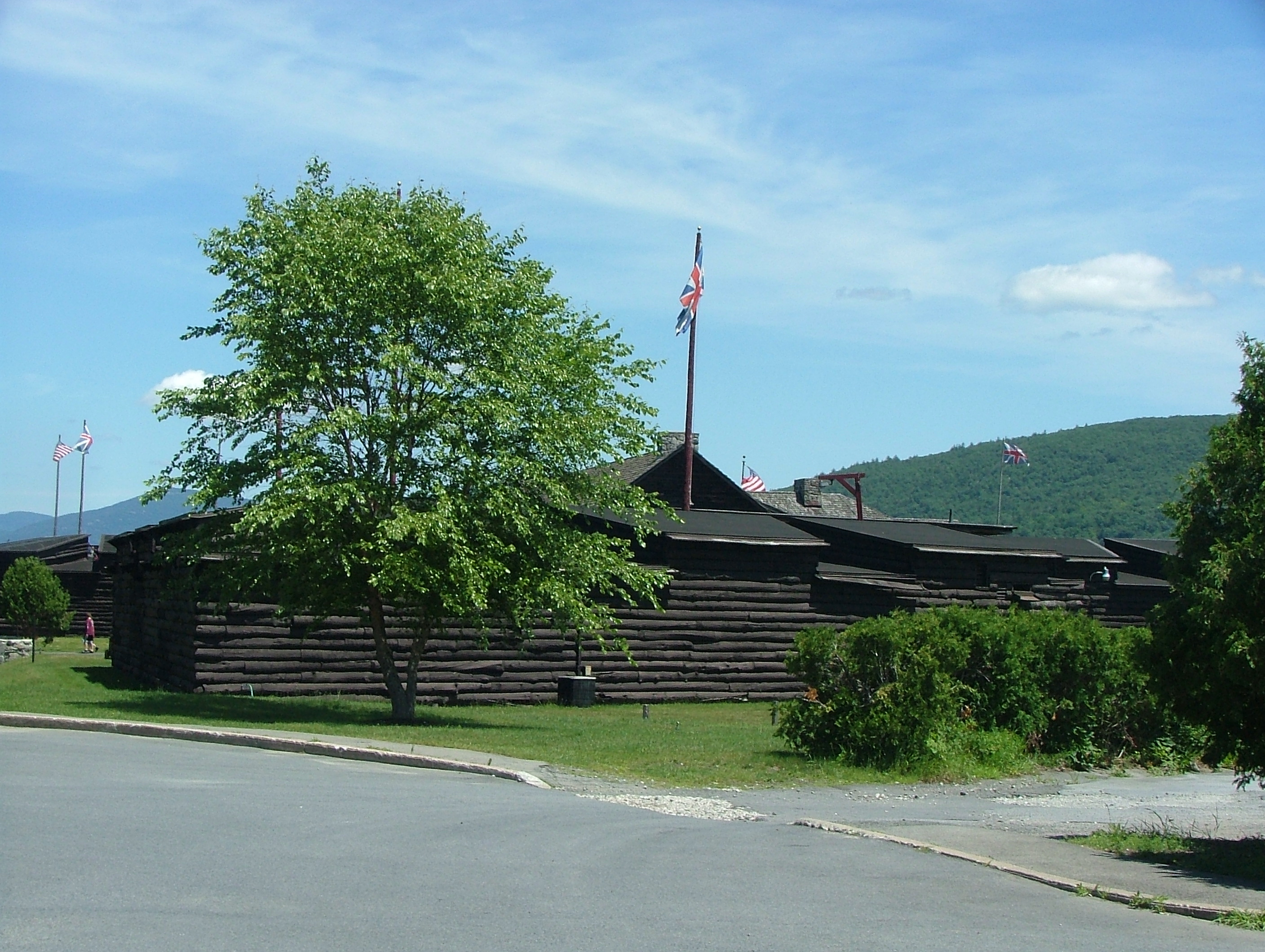 Reconstructyion of Fort william Henry, Lake George, New York